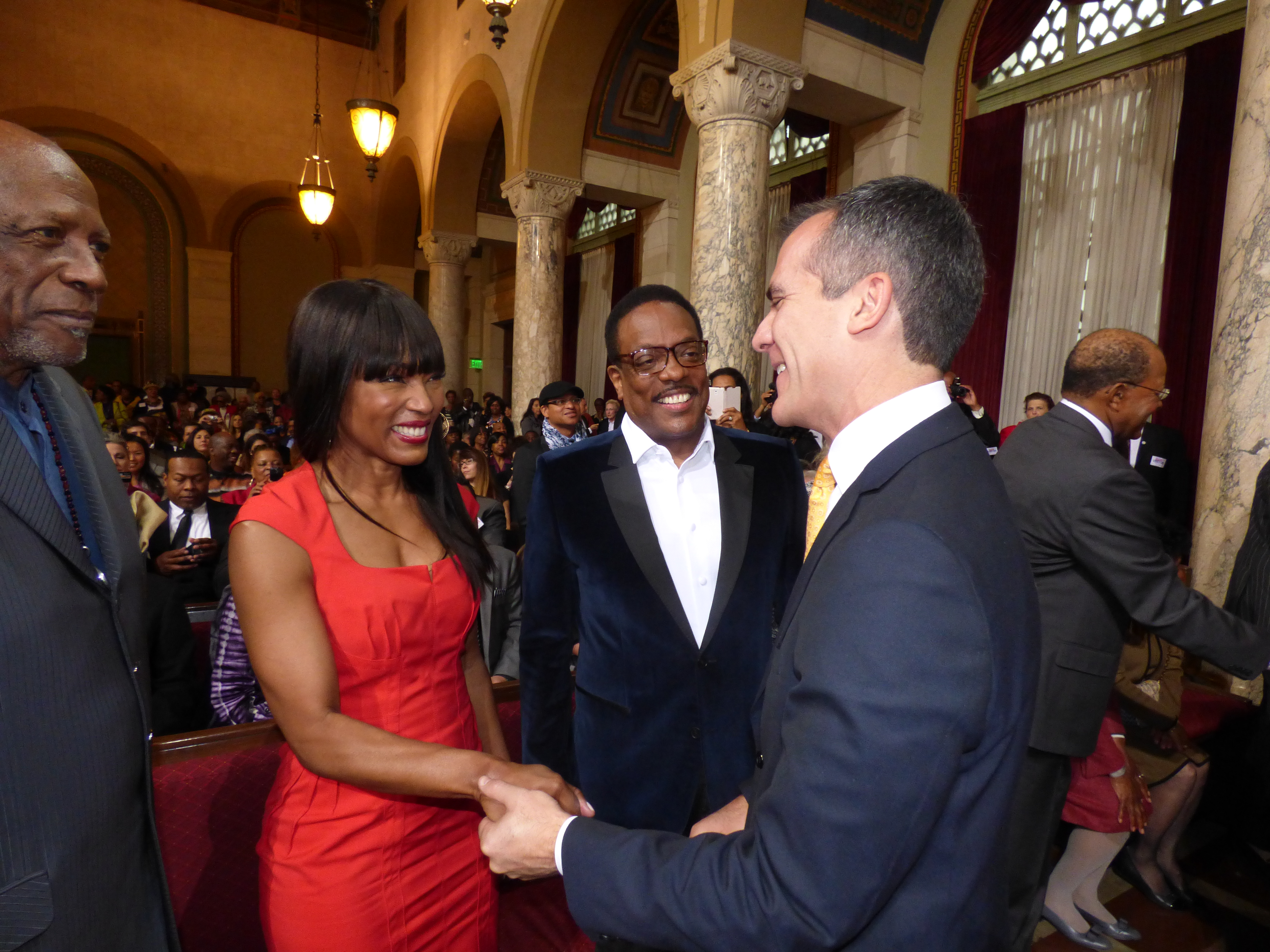 Greeting Honorees Lou Gossett Jr., Angela Bassett, and Charlie Wilson